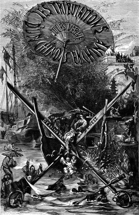 An illustration from Jules Verne's novel "Tribulations of a Chinaman in China" (1878) drawn by Léon Benett.